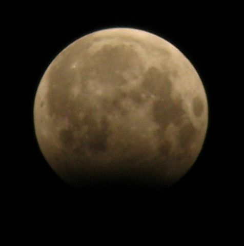 The Lunar Eclipse of December 2009